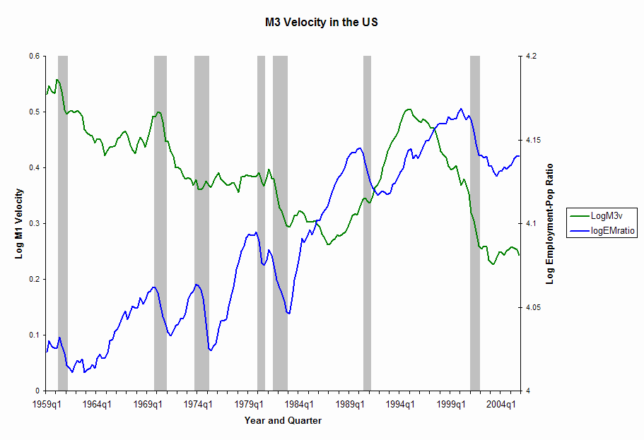 M3 velocity calculated as the nominal GDP divided by the non-seasonally adjusted M3 money supply. M3 is discontinued from publication by Fed. Data runs through the end of 2005.